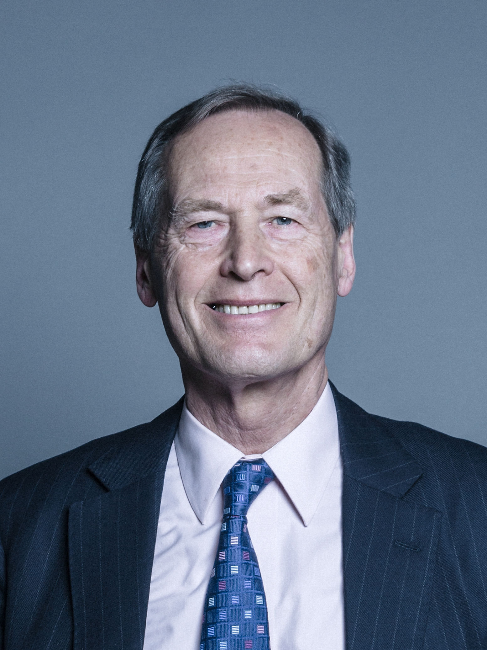 Official portrait of Lord Howarth of Newport